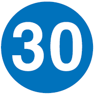 Luxembourg road sign diagram